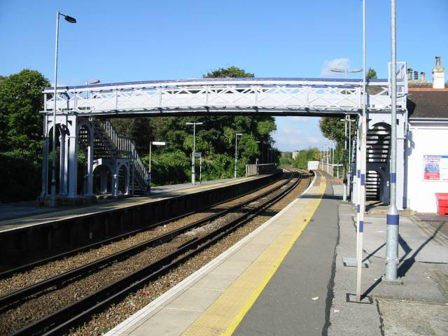 Railway station at Kearsney